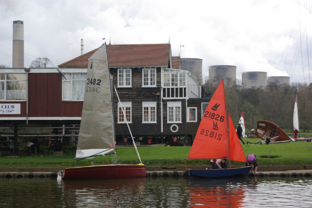 Trent Valley Sailing Club Located at the western end of the Cranfleet Cut where it rejoins the River Trent. Ratcliffe Power Station looms behind.